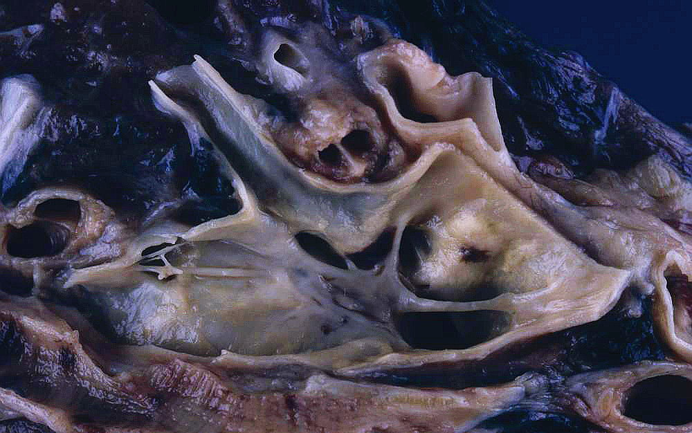 Pulmonary arterial web-remnants of old organized thromboembolus A meshwork of fibrous tissue bands, representing the remanants of an old organized thromboembolus, bridges the lumen of this large pulmonary artery.